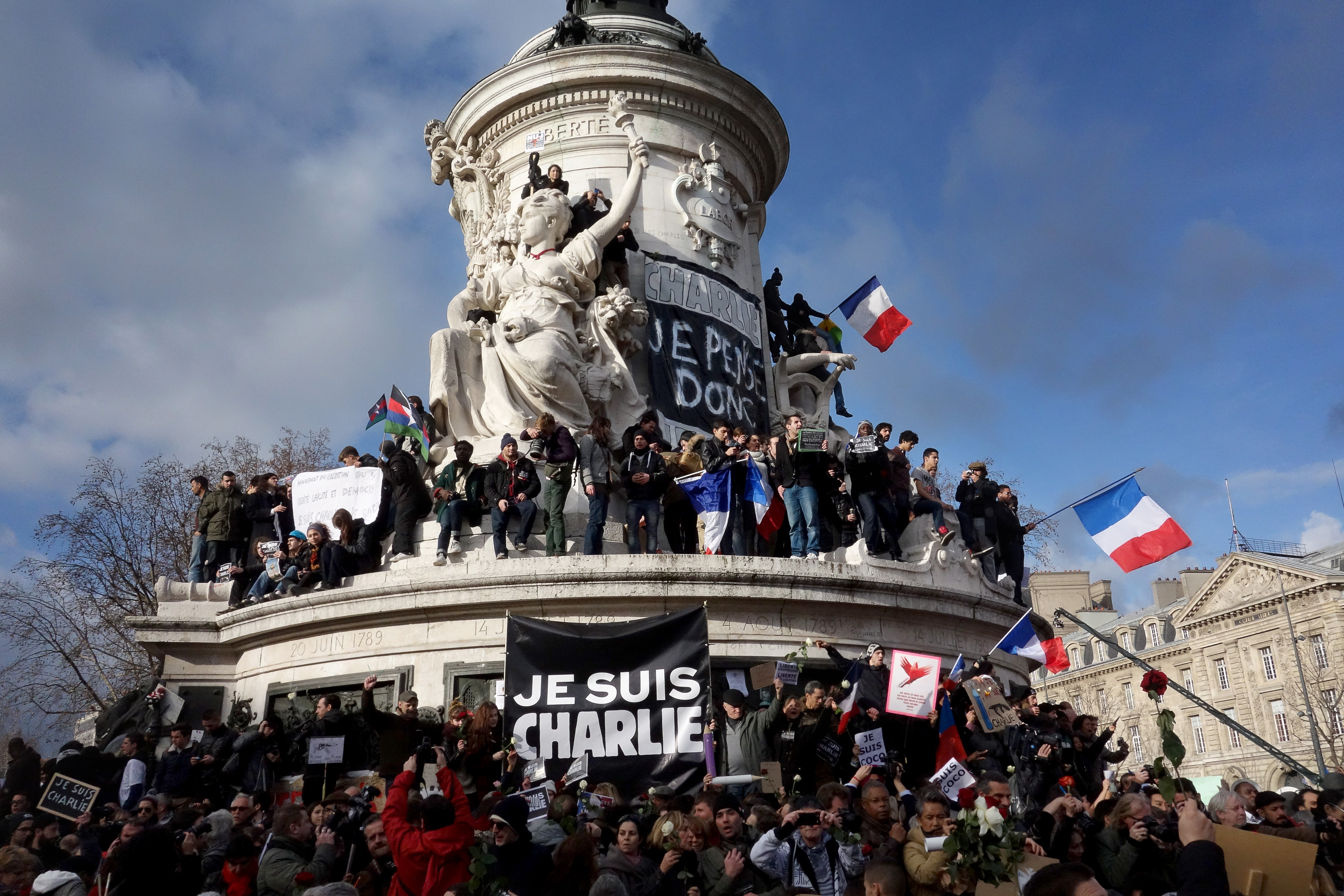 Paris rally in support of the victims of the 2015 Charlie Hebdo shooting, 11 January 2015. Place de la Republique.